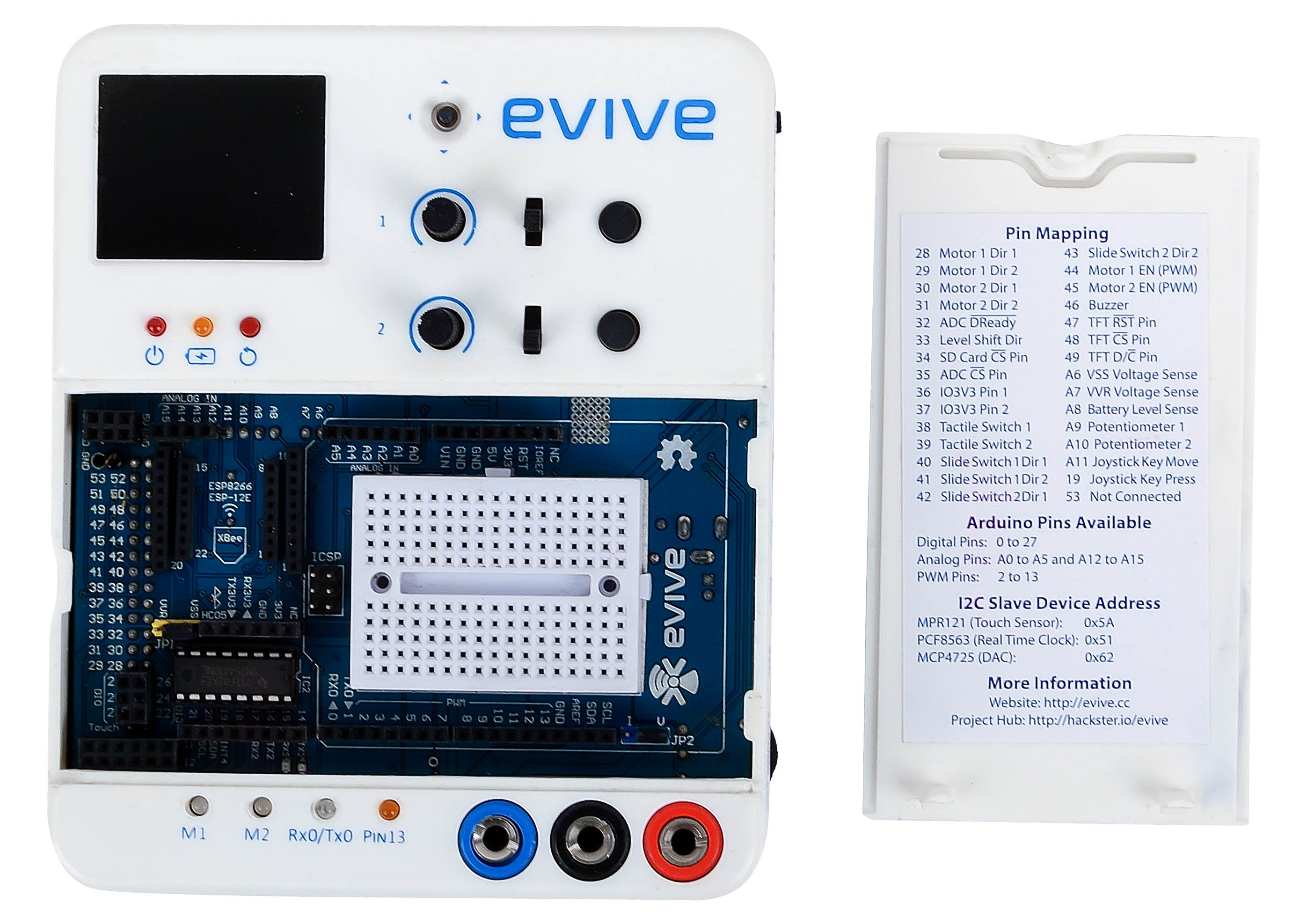 evive is an Arduino compatible board developed by STEMpedia for technology education, STEM and robotics.